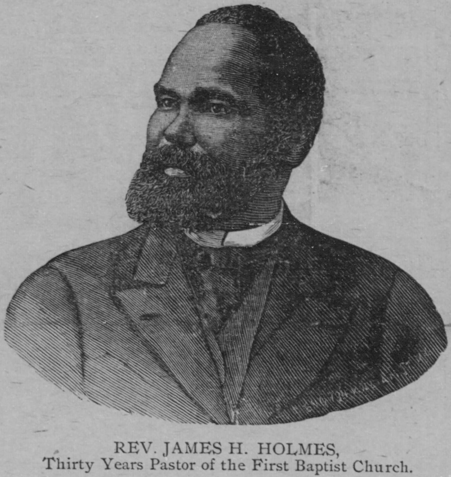 Holmes in 1897